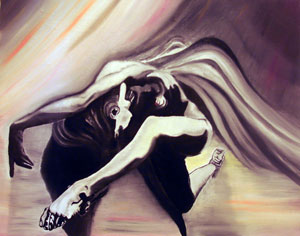 Oil Painting